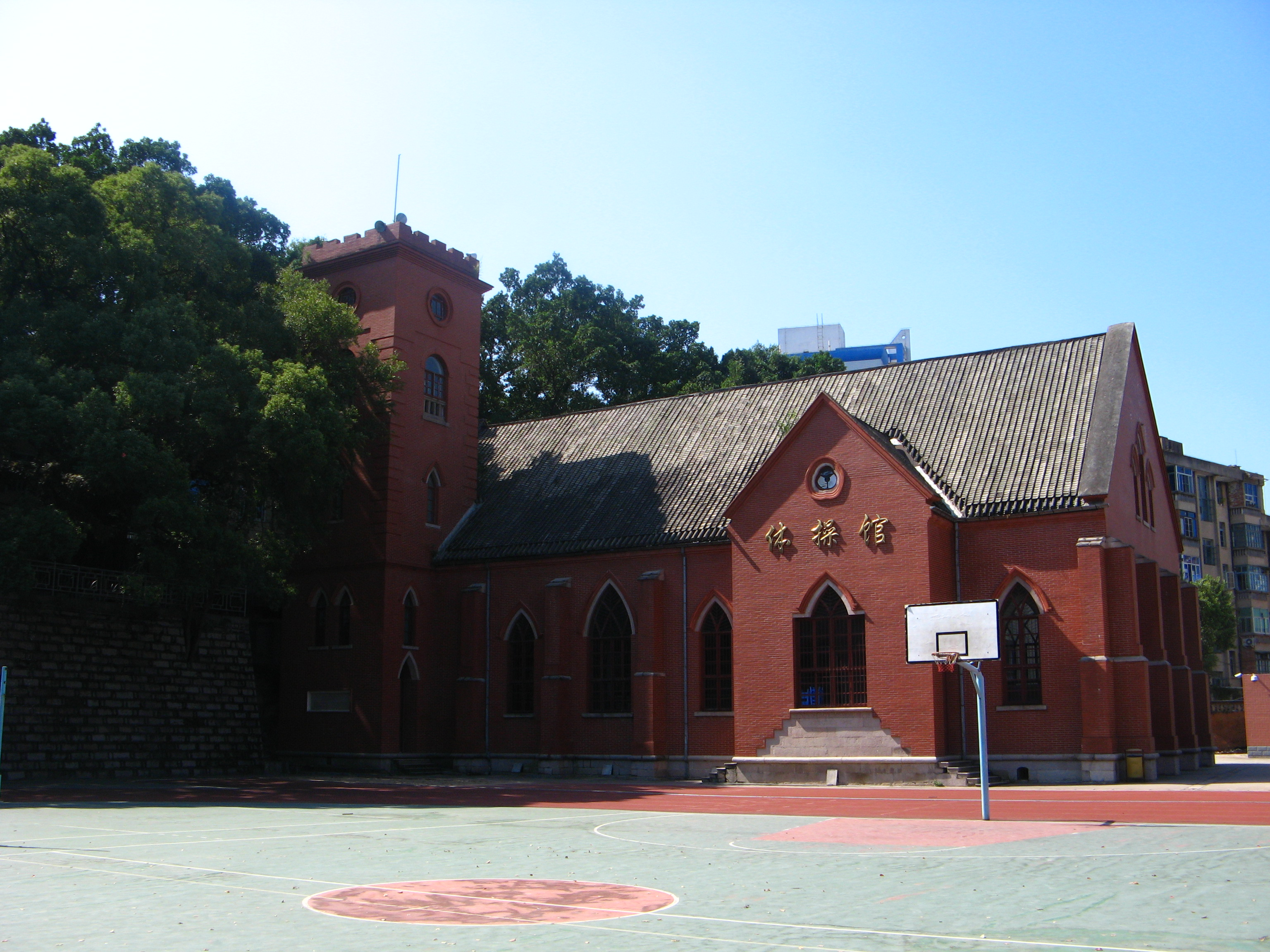 Nind-Lacy Memorial Church, erected in 1905, now the gymnasium of Fuzhou Senior High School